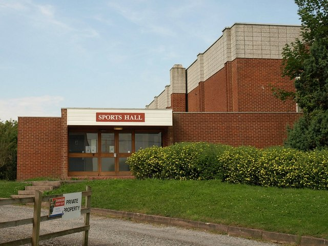 Sports hall, Seale Hayne The Sports hall at the now closed Seale Hayne Campus of the University of Plymouth, seen from Howton Lane.